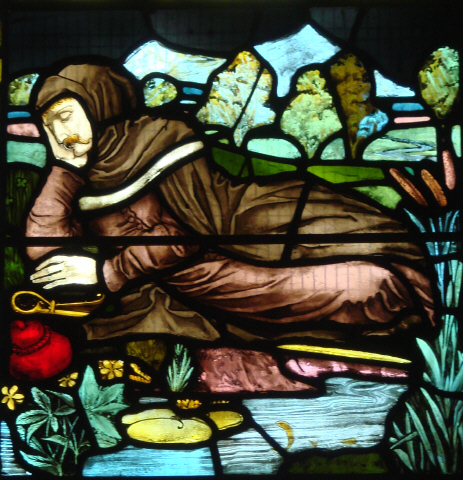 William Langland, as depicted in a stained glass window at the parish church of St Mary the Virgin in Cleobury Mortimer, Shropshire